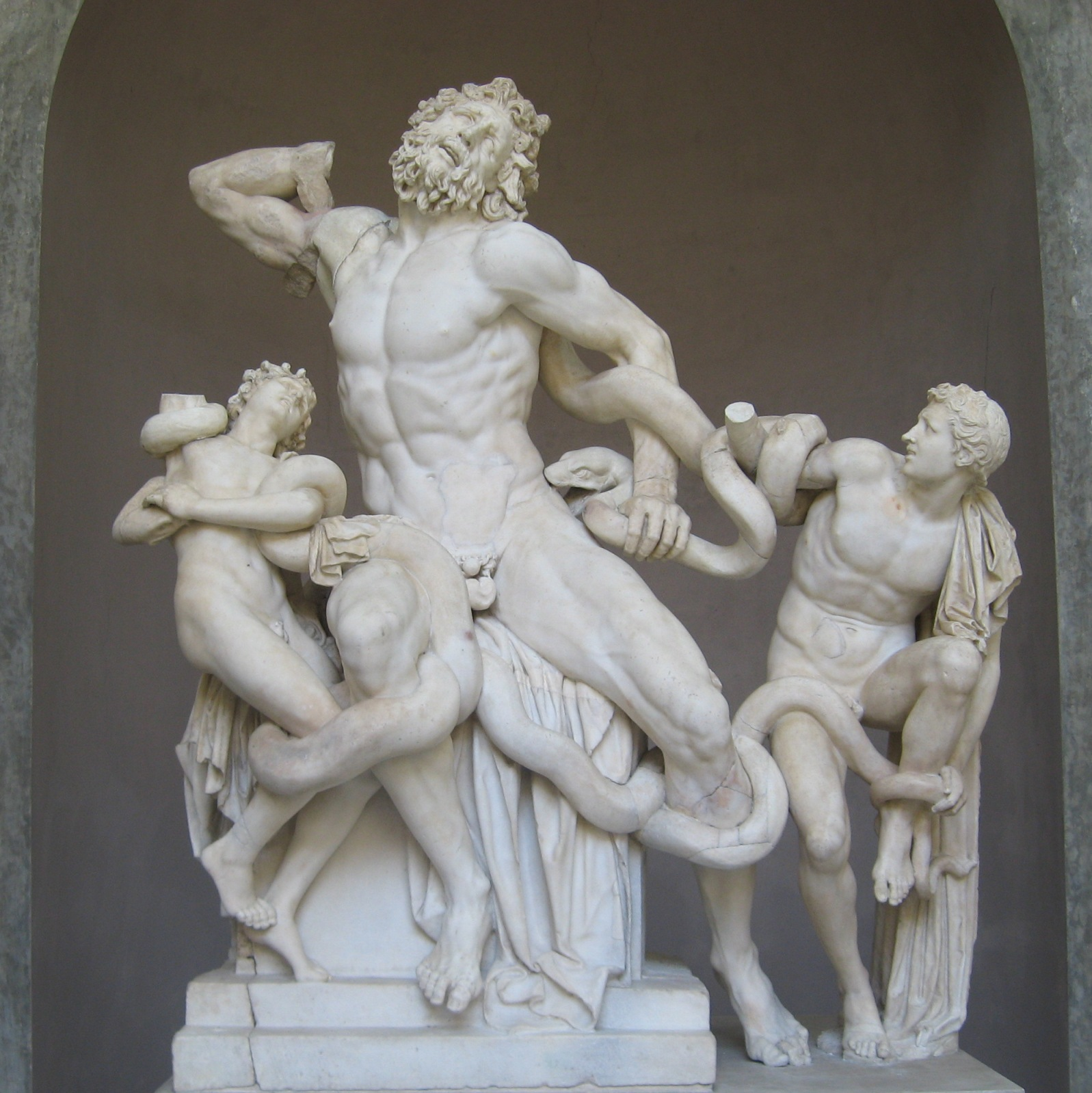 [Laocoon group, by Hagesandros, Athanadoros and Polydoros, Rhodian artists, c. 170–150 BC. Marble. Location: Laocoon chamber, Octogon court, Pio-Clementino Museum, Vatican.